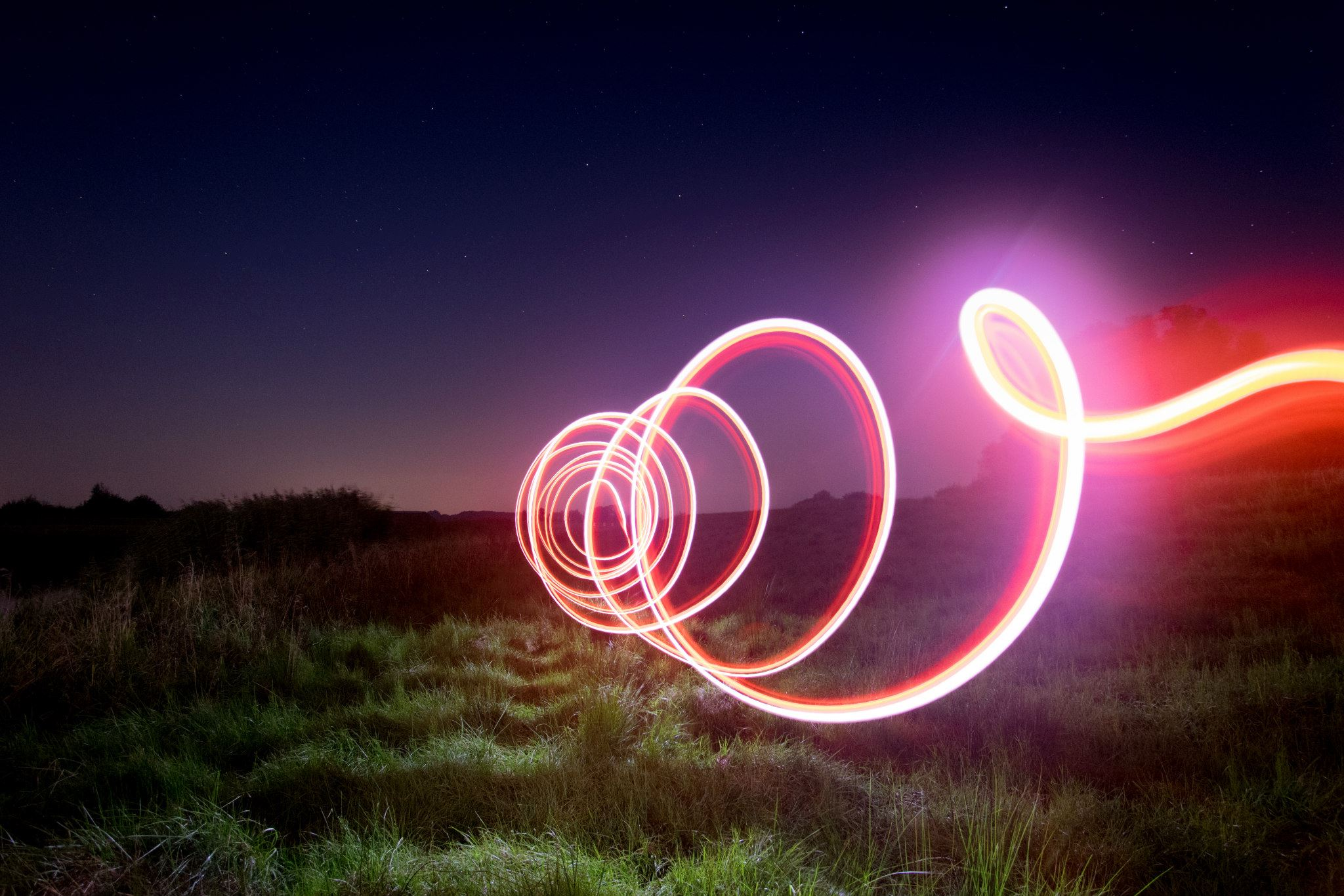 Light painting screw - backwards.